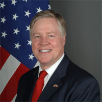 William Carlton Eacho, III, U.S. Ambassador to Austria